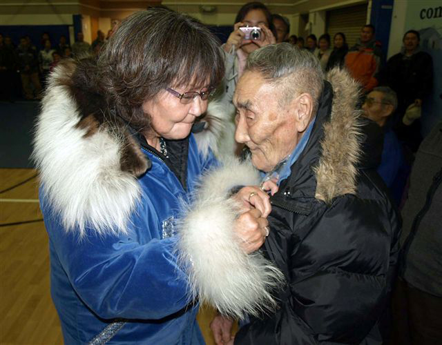 Caroline Hoover proudly pins an Alaska Territorial Guard medal on the front of her father's parka during an official discharge ceremony held Oct. 17 in Kipnuk, Alaska. David Martin is one of three surviving members of the Alaska Territorial Guard's Kipnuk unit. A total of 59 residents of Kipnuk, who volunteered to defend Alaska in the event of a Japanese invasion during World War II, were recognized during the ceremony. Kipnuk residents who served with the Alaska Territorial Guard from 1942-1947 were members of a U.S. Army component organized in response to attacks by the Japanese on Pearl Harbor. (Photo by Jerry Walton, DMVA Cultural Resource Manager and Native Liaison)